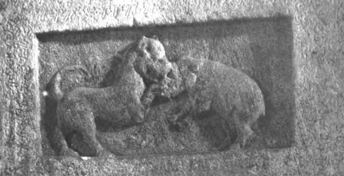 Atakur inscription (10th century, south India)